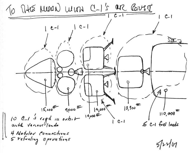 Original caption: Three days before President Kennedy's lunar commitment, John D. Bird, "Jaybird" (left), captured Langley's enthusiasm for a moonshot in his sketch "TO THE MOON WITH C-1's OR BUST" (below). In essence, his plan called for a mission via earth-orbit rendezvous (EOR) requiring the launch of 10 C-1 rockets.